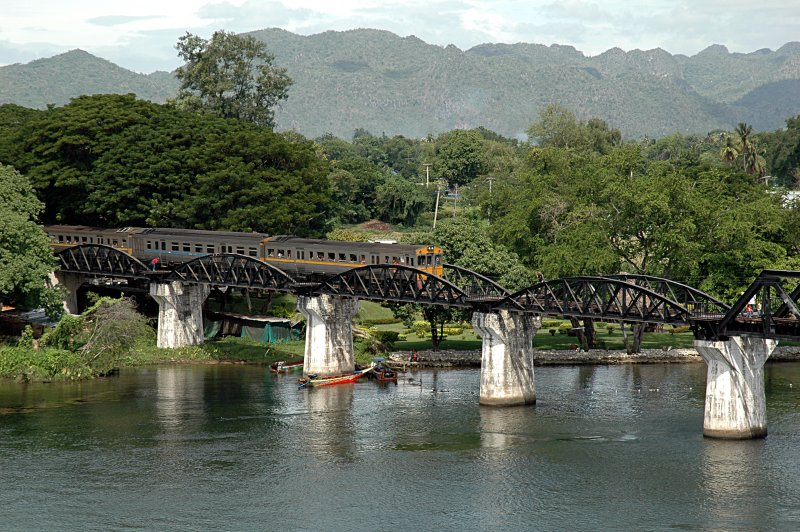 Train crossing the Bridge over River Kwai, Kanchanaburi, Thailand